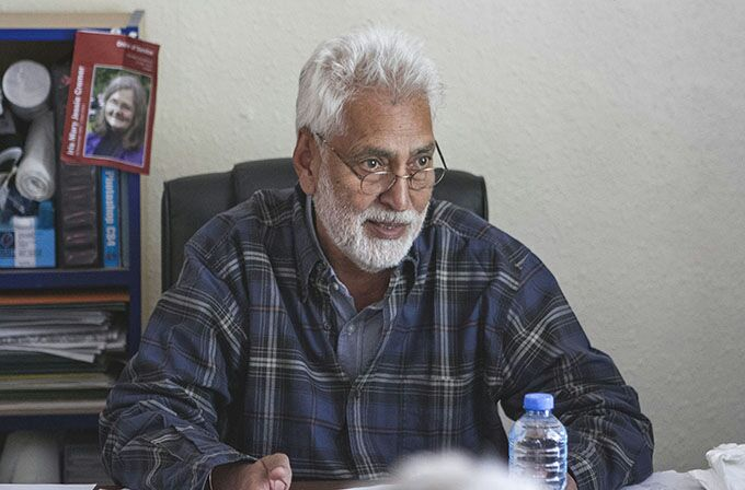 Harpal Brar speaks to young comrades at the CPGB-ML Birmingham HQ, at a meeting organised to celebrate the 70th anniversary of the victory over fascism.